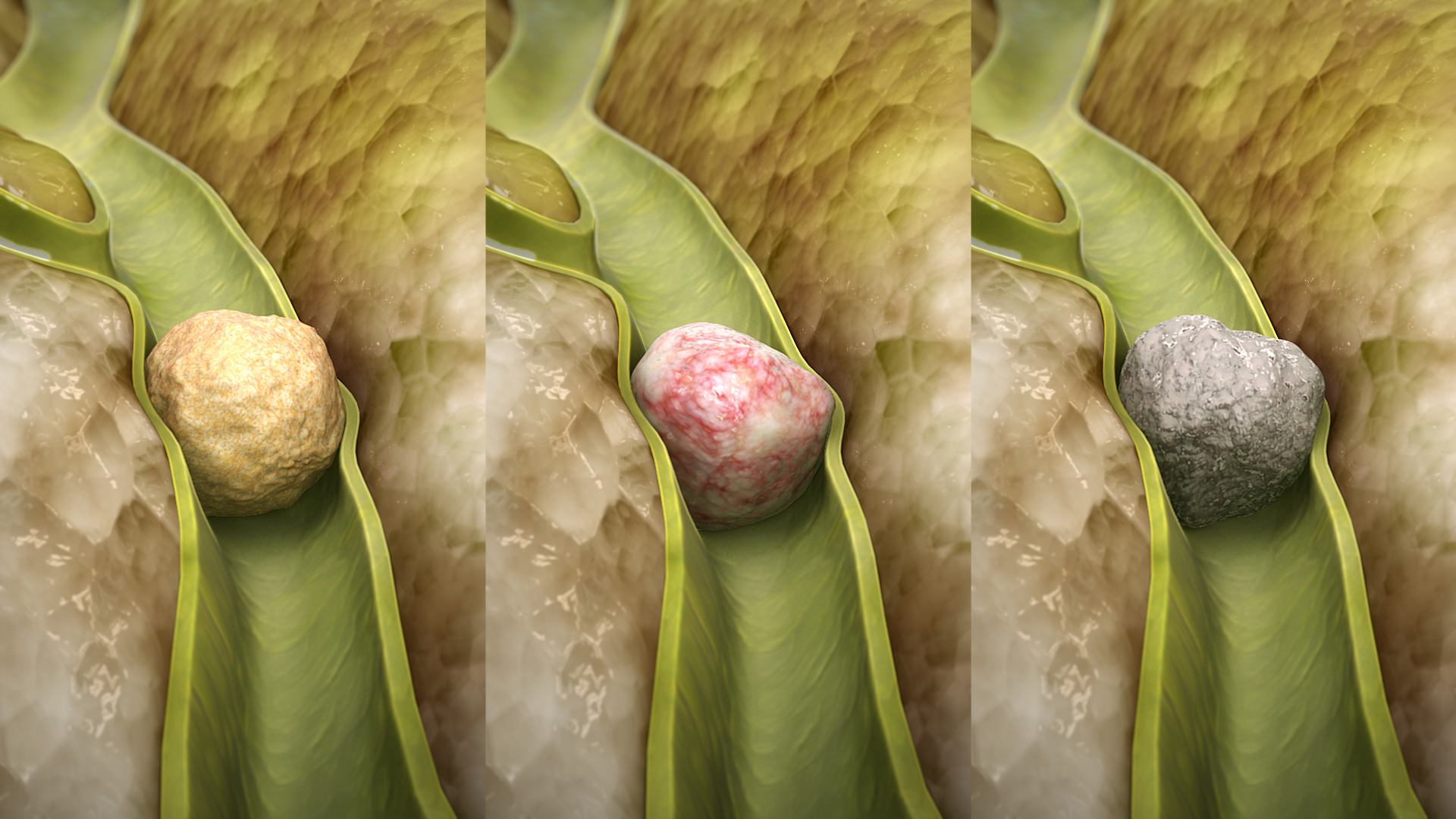 Types of gallstones varying in their composition.